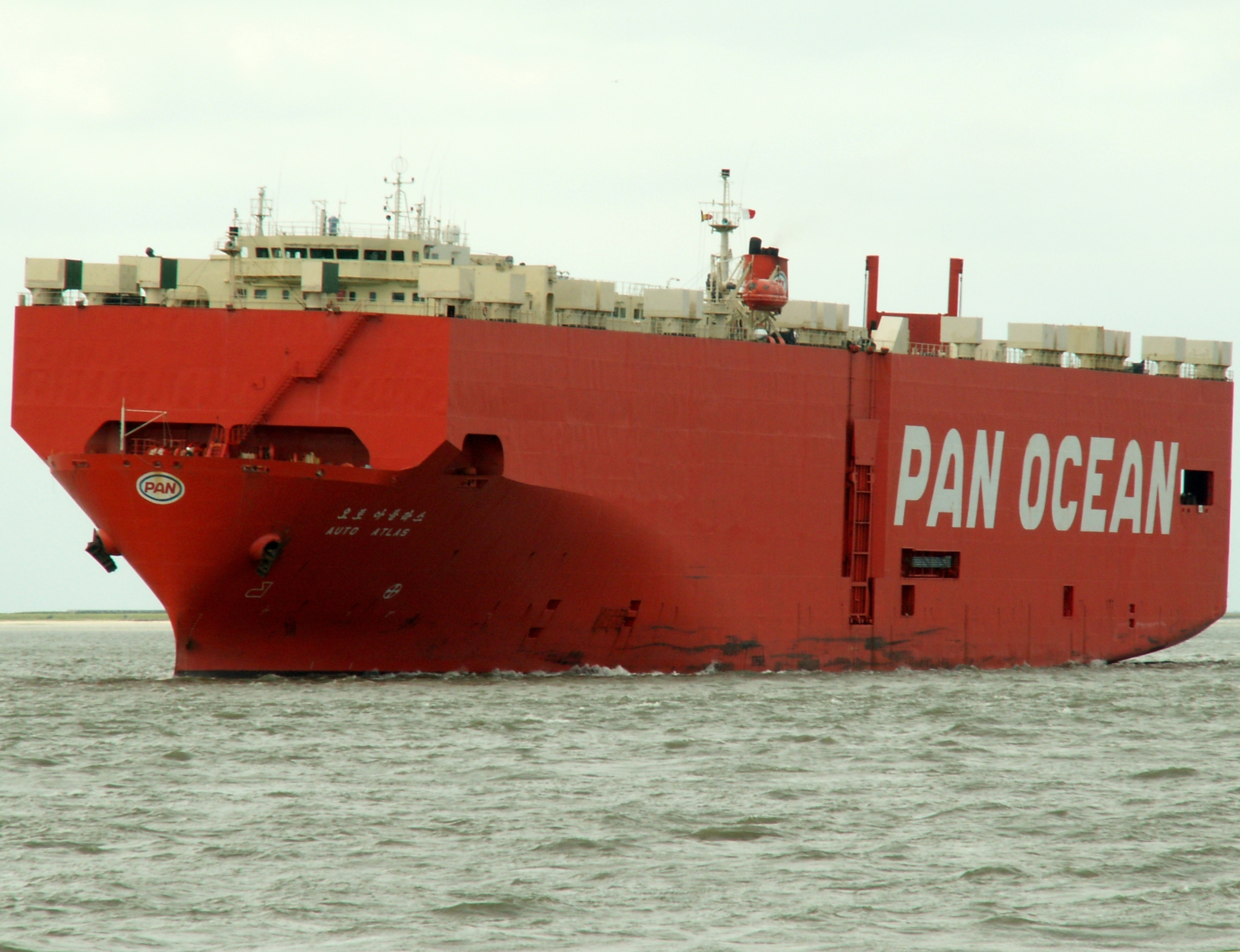 Photographed at the Port of Antwerp, Belgium.